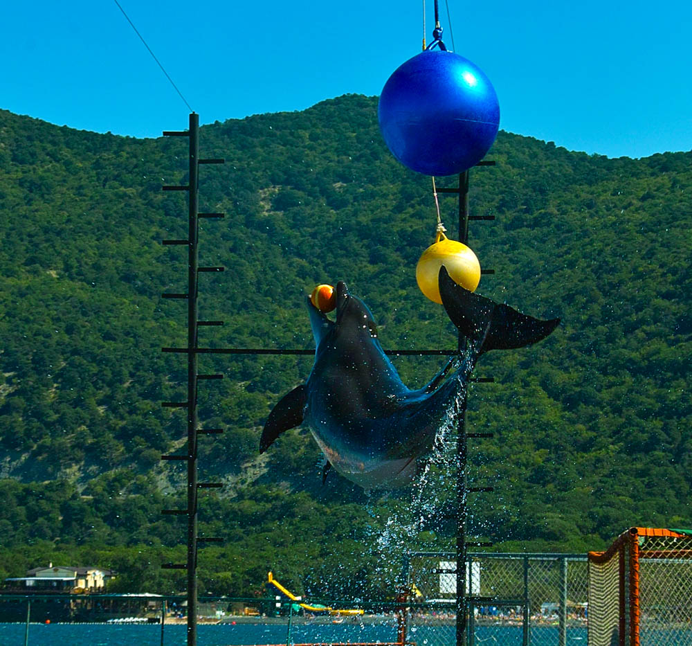 Dolphin jump